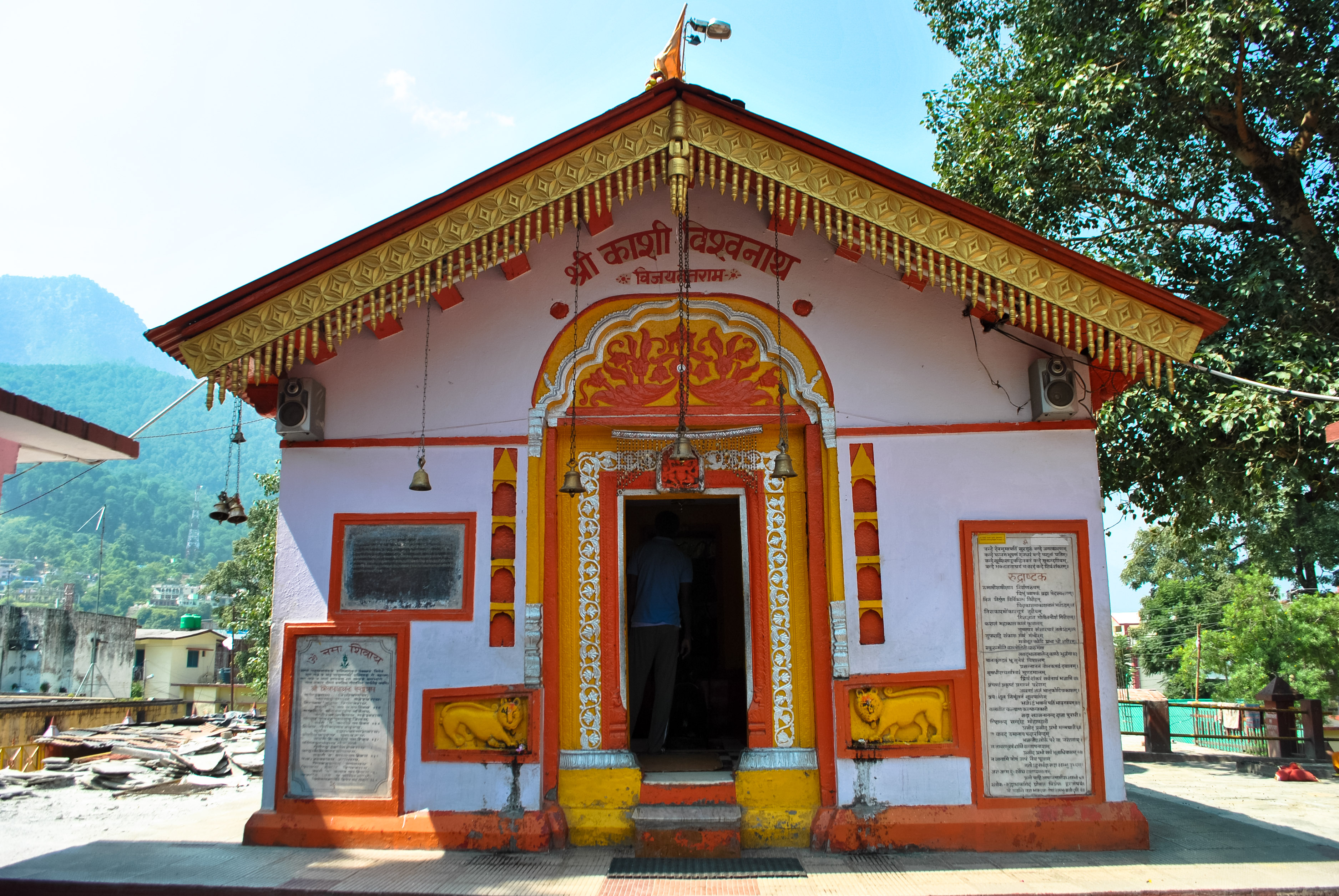 This picture was taken during Kalindi khal trek.